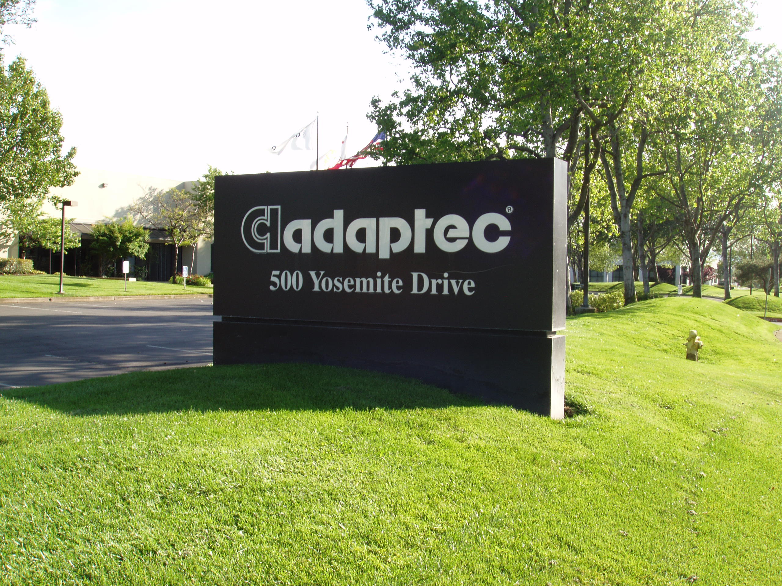 Adaptec Headquaters